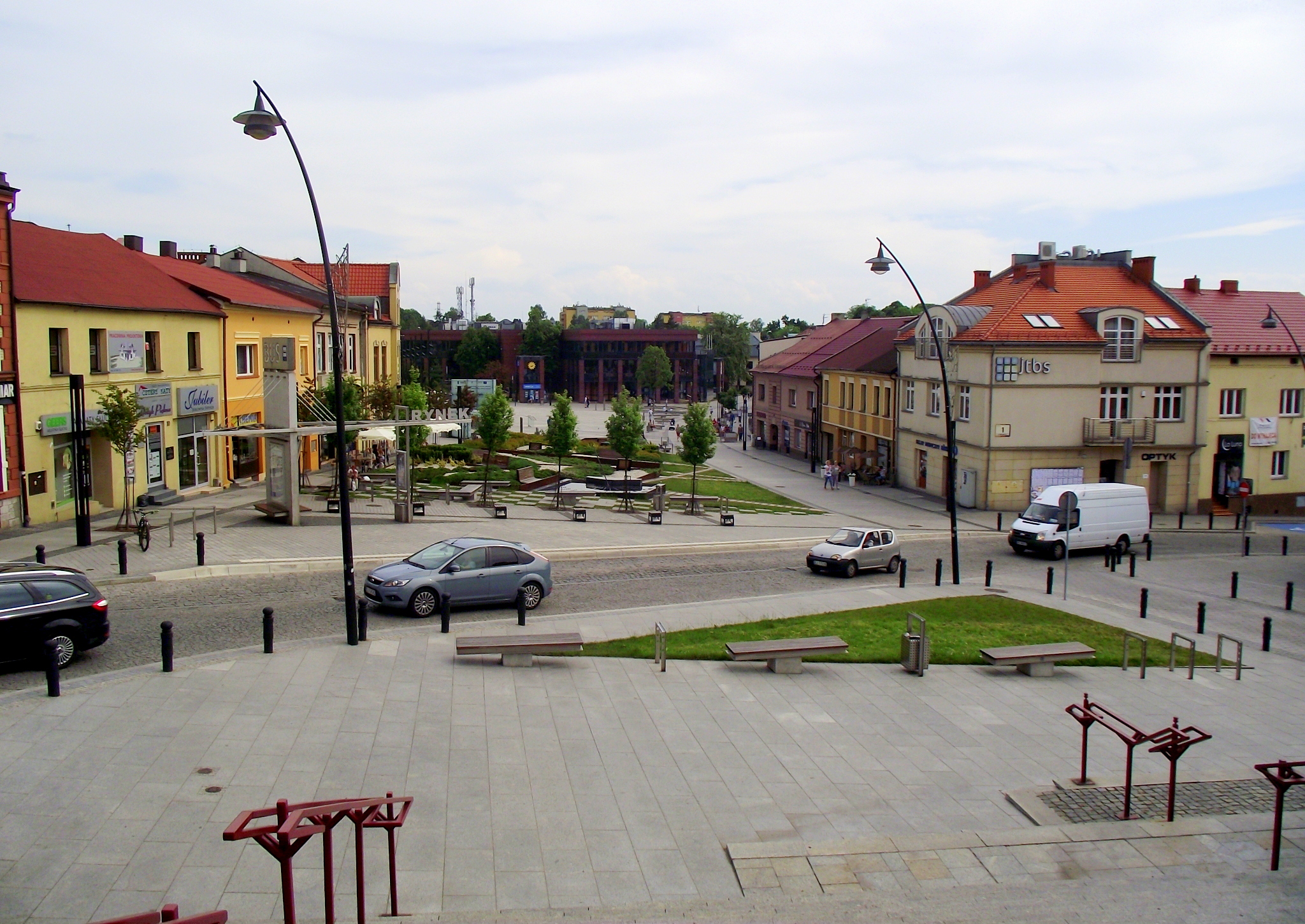 Main Square in Jaworzno, Poland.